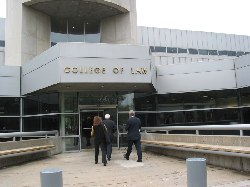 University of Iowa College of Law